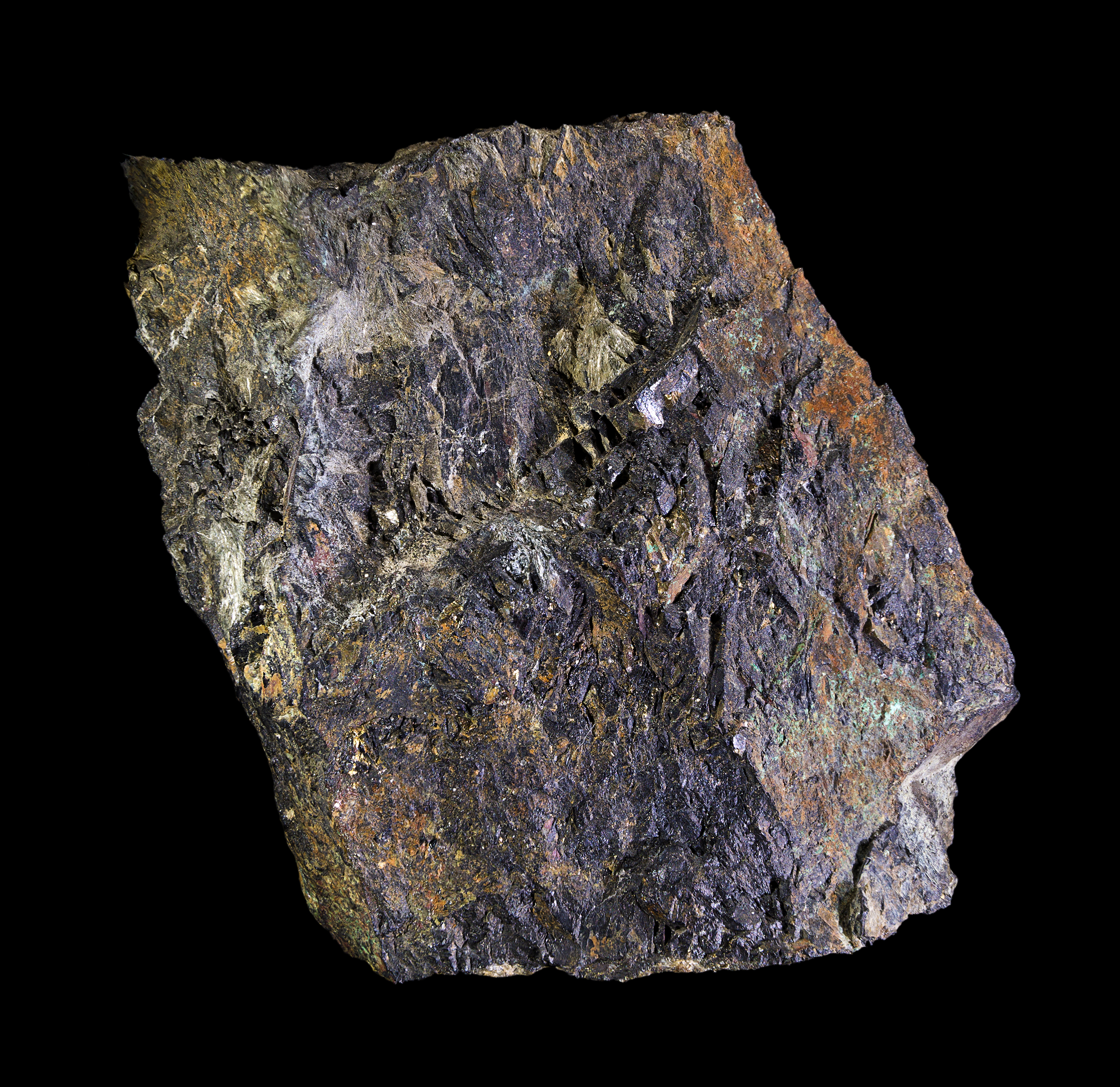 Cerite-(Ce) – Specimen of the nineteenth century.It is the mineral in which the cerium was highlighted in 1803 by Berzelius.Cerite here is very dark brown almost black. It forms the majority of the specimen. Locality : Bastnäs mines, Riddarhyttan, Skinnskatteberg, Västmanland, Sweden. Topotype deposit. Size : 7.3x7.1x3cm